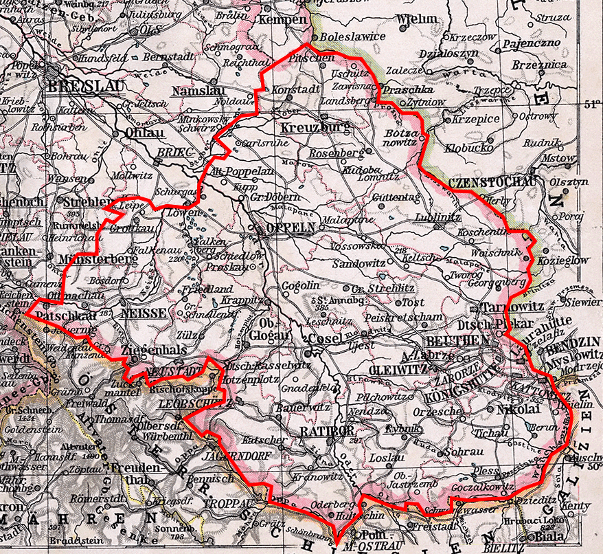 Detail from a map of Silesia.